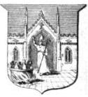 arms of scottish diocese (Aberdeen)